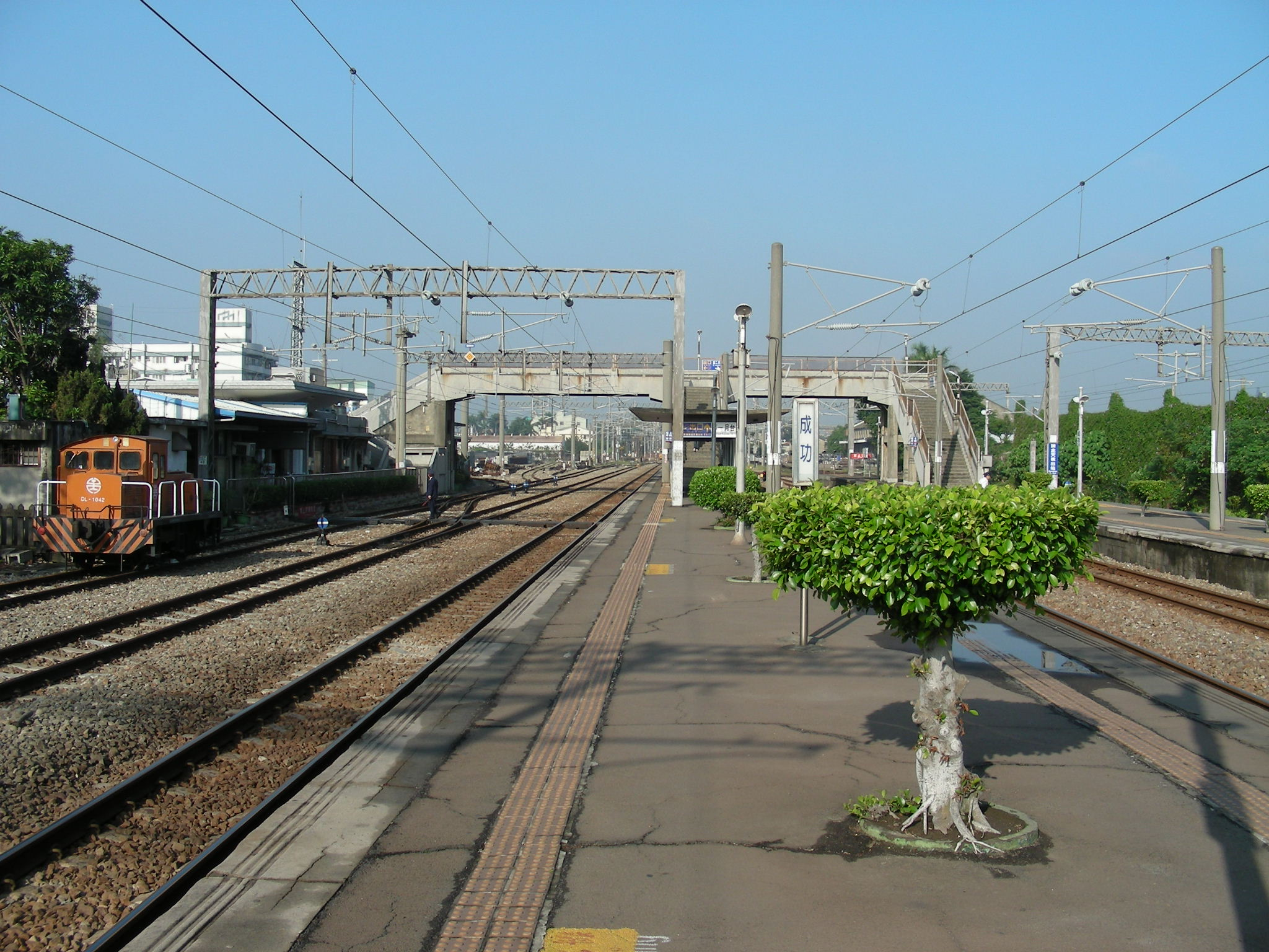 Taiwan "Cheng Gone" Railway Station Platform.